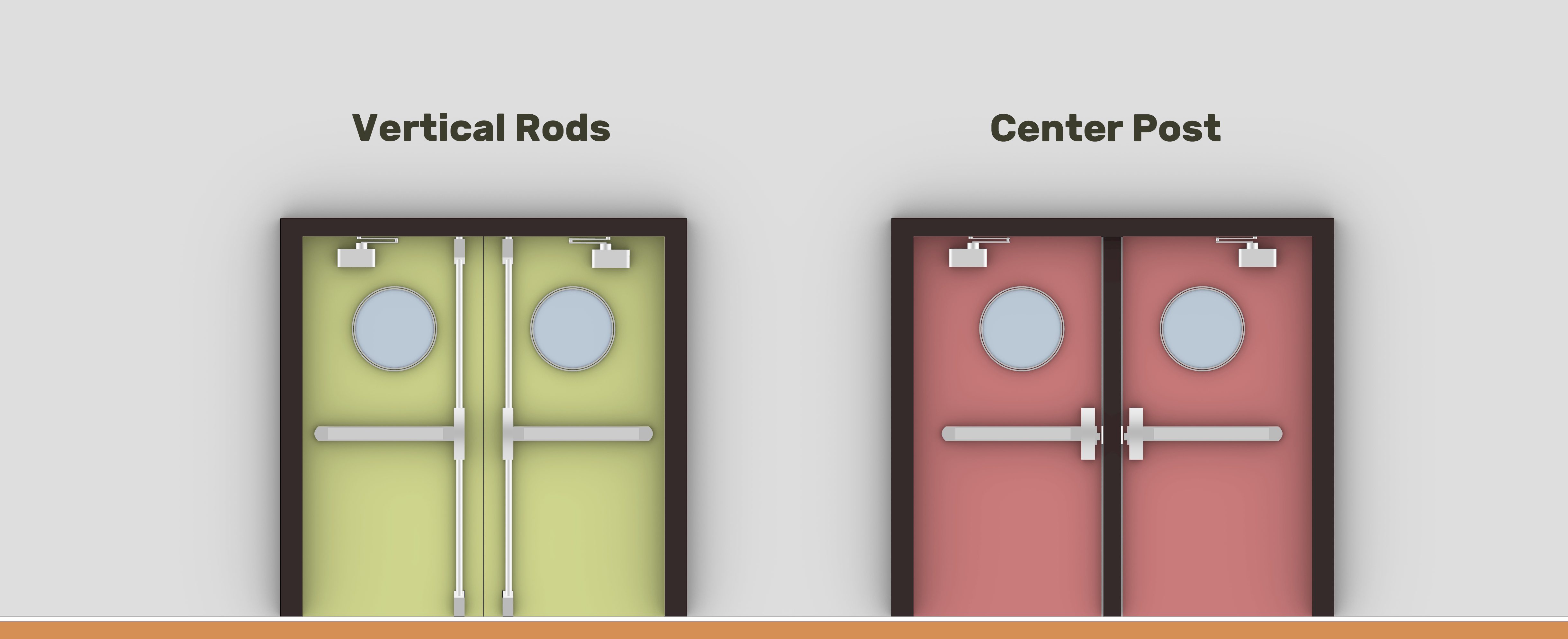 A rendering showing the difference between vertical rod Pullman latches versus center post latching in emergency exit doors.